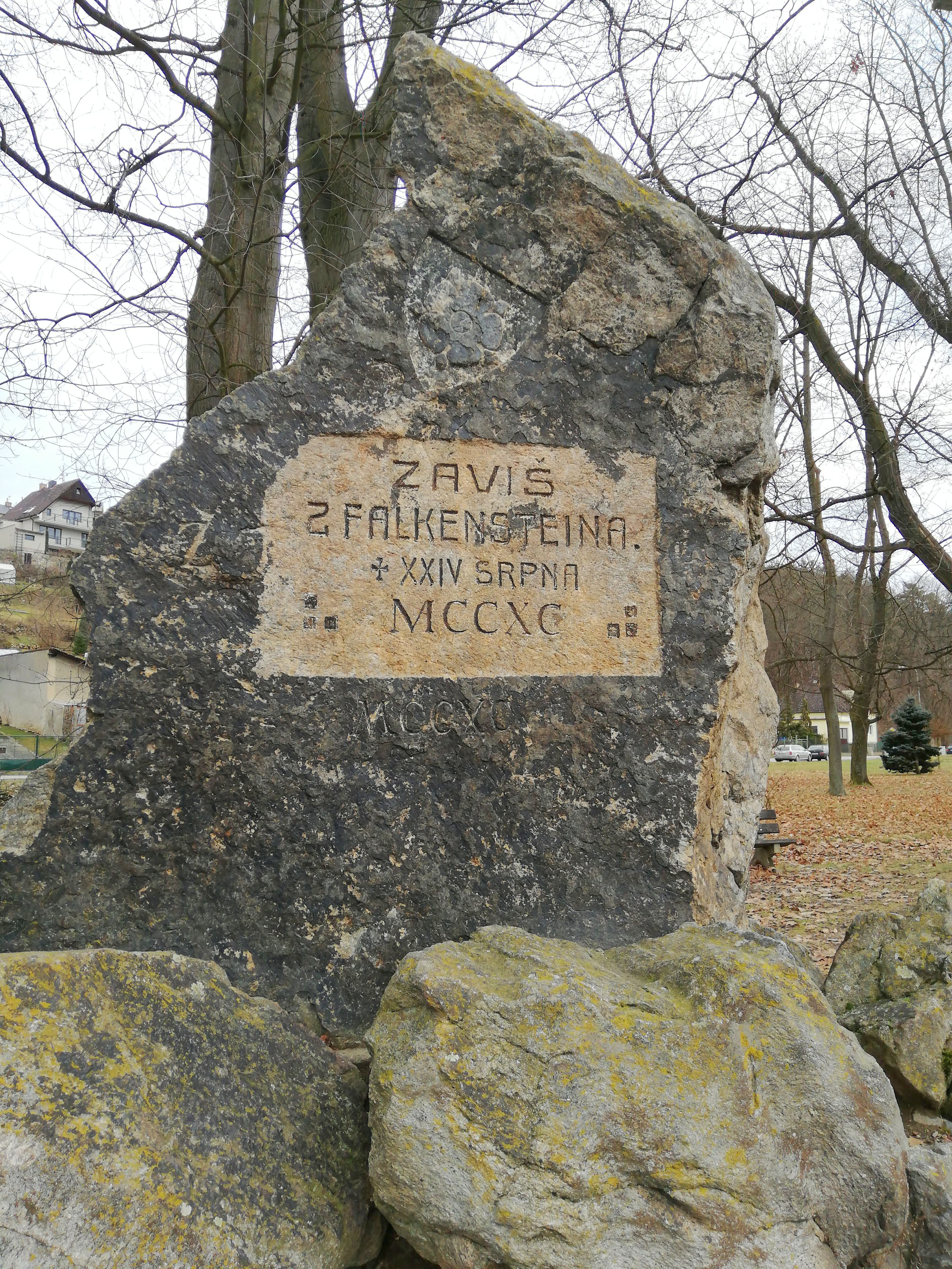 After the death of King Přemysl Otakar II. Vítkovice - Záviš of Falknštejn and his brother held the castle in Hluboká nad Vltavou for a short time. After the execution of Záviš of Falknštejn in a meadow under the castle of Hluboká on 24.8.1290 the castle was again in possession of the royal chamber. In 1895 A.J.Schwarzenberg had a monument built on the supposed place of execution on the right bank of the Vltava.